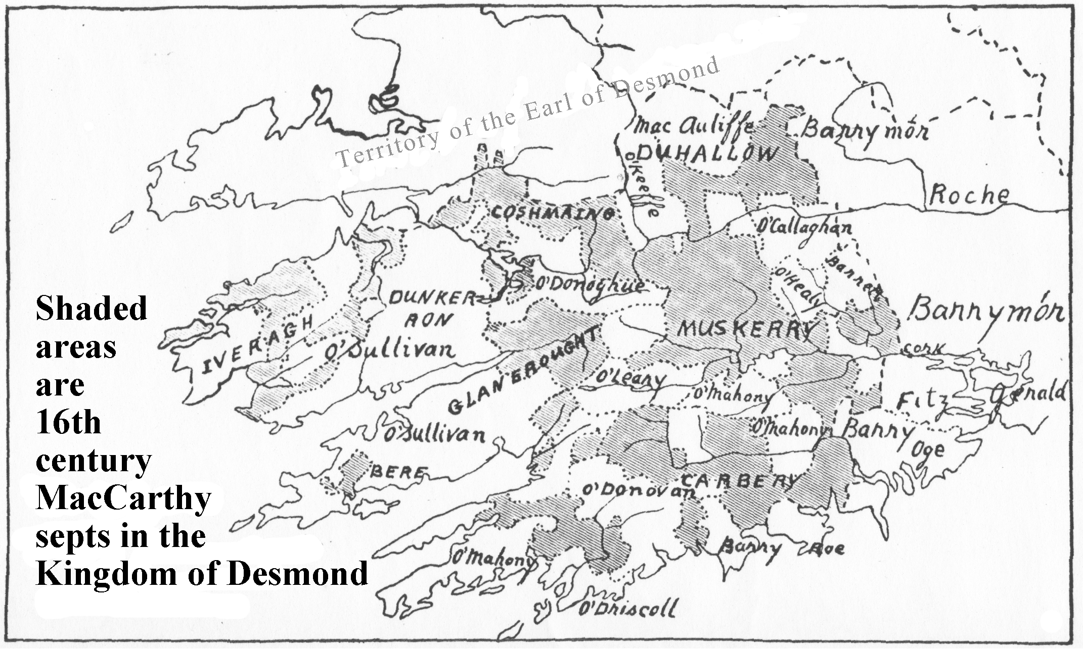 Adapted from: W.F. Butler; Pedigree and Succession of the House of MacCarthy Mór, With a Map; Journal of the Royal Society of Antiquaries of Ireland; Vol. 51, May 1920; p.33.